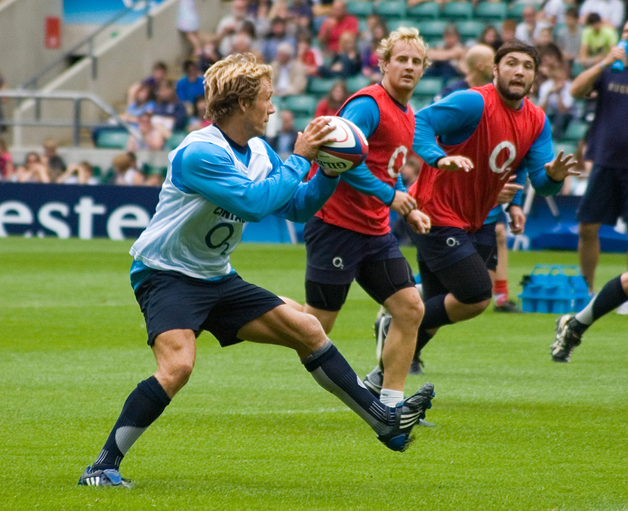 Jonny Wilkinson à l'entraînement avec le XV de la Rose. Prise le 12 août 2009. Jonny Wilkinson with English team training session in Twickenham stadium. 12 August 2009.